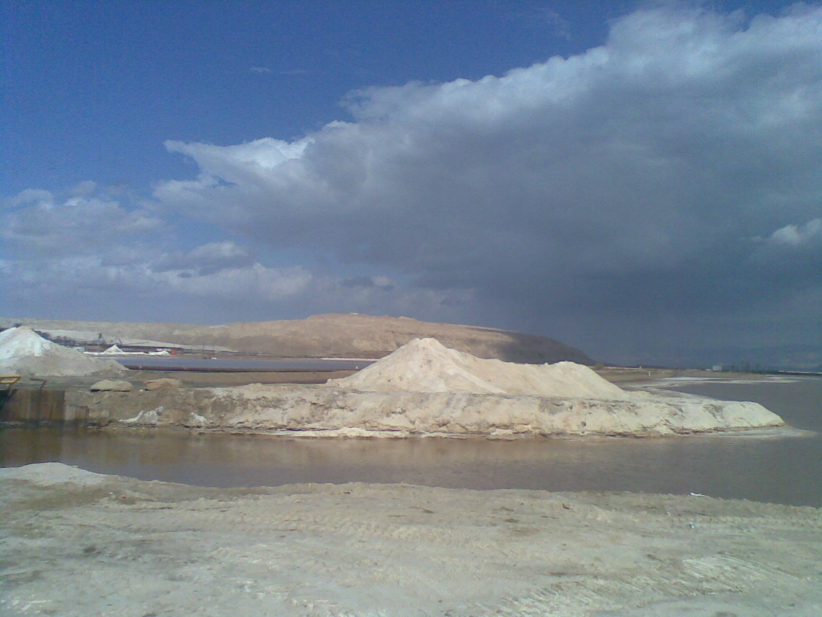 Industry in Israel